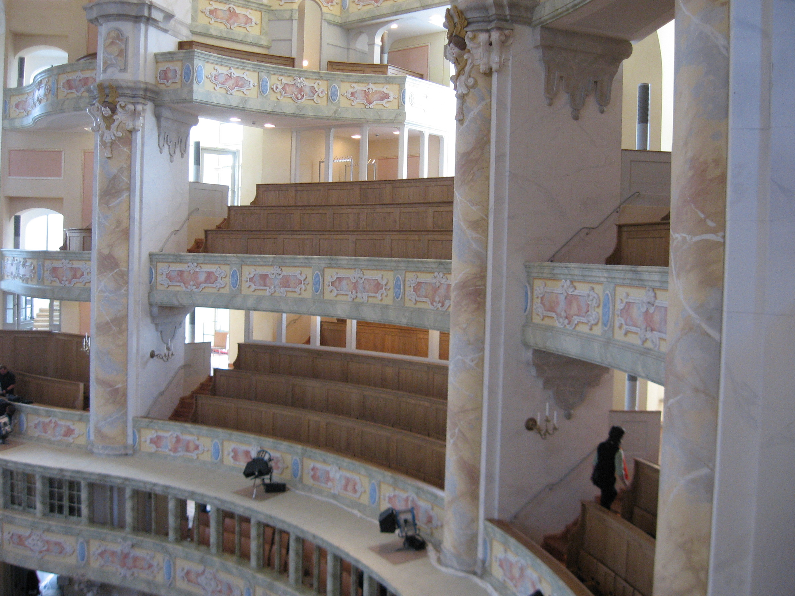 The Church of Our Lady (Frauenkirche) in Dresden, Saxony, Germany.